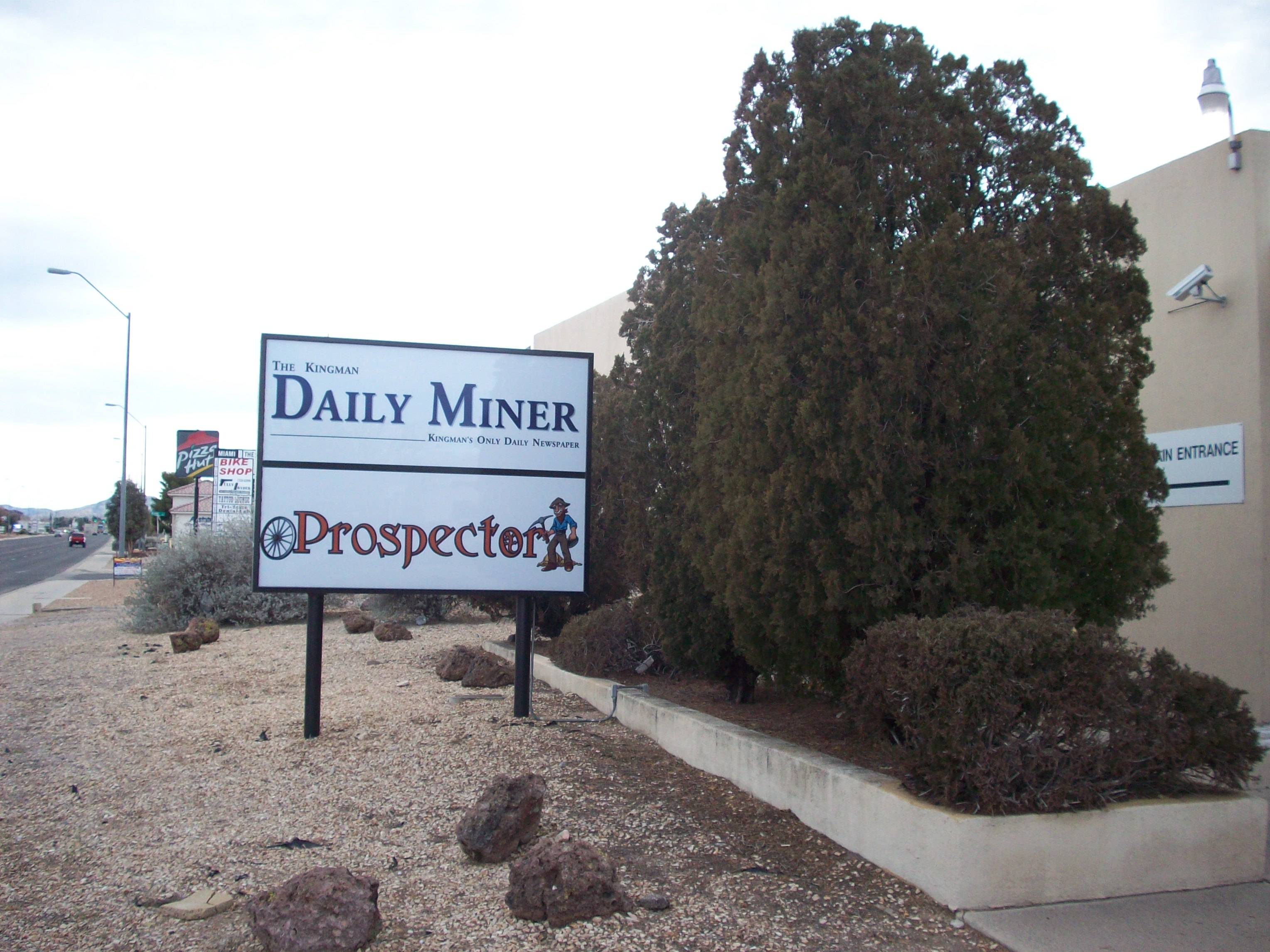 Sign and front of Kingman Dailyminer offices.